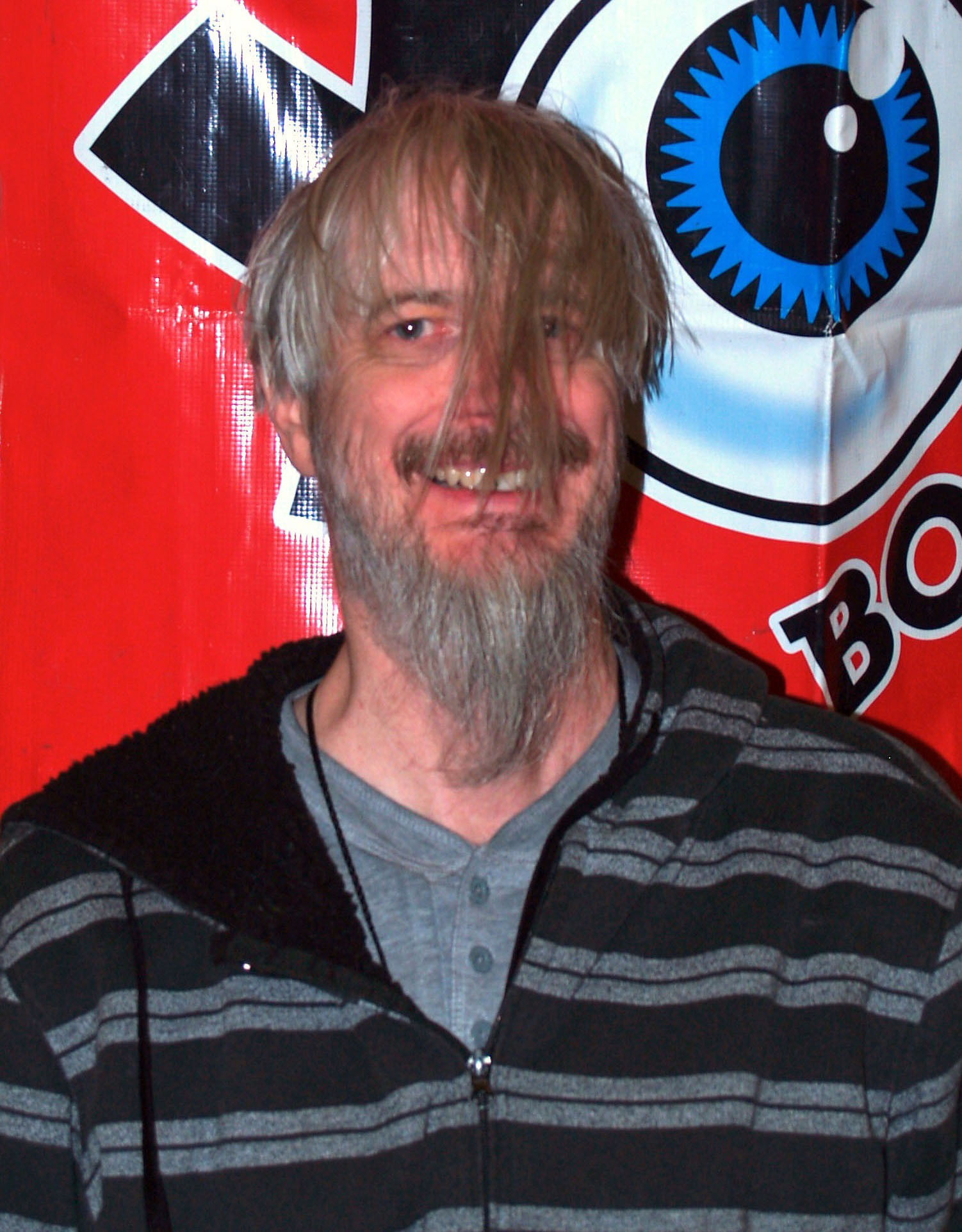 Comics creator/historian Craig Yoe at the Meadowlands Exposition Center in Secaucus, New Jersey on April 16, 2016, Day 1 of the 2016 East Coast Comicon. This photo was created by Luigi Novi. It is not in the public domain, and use of this file outside of the licensing terms is a copyright violation.